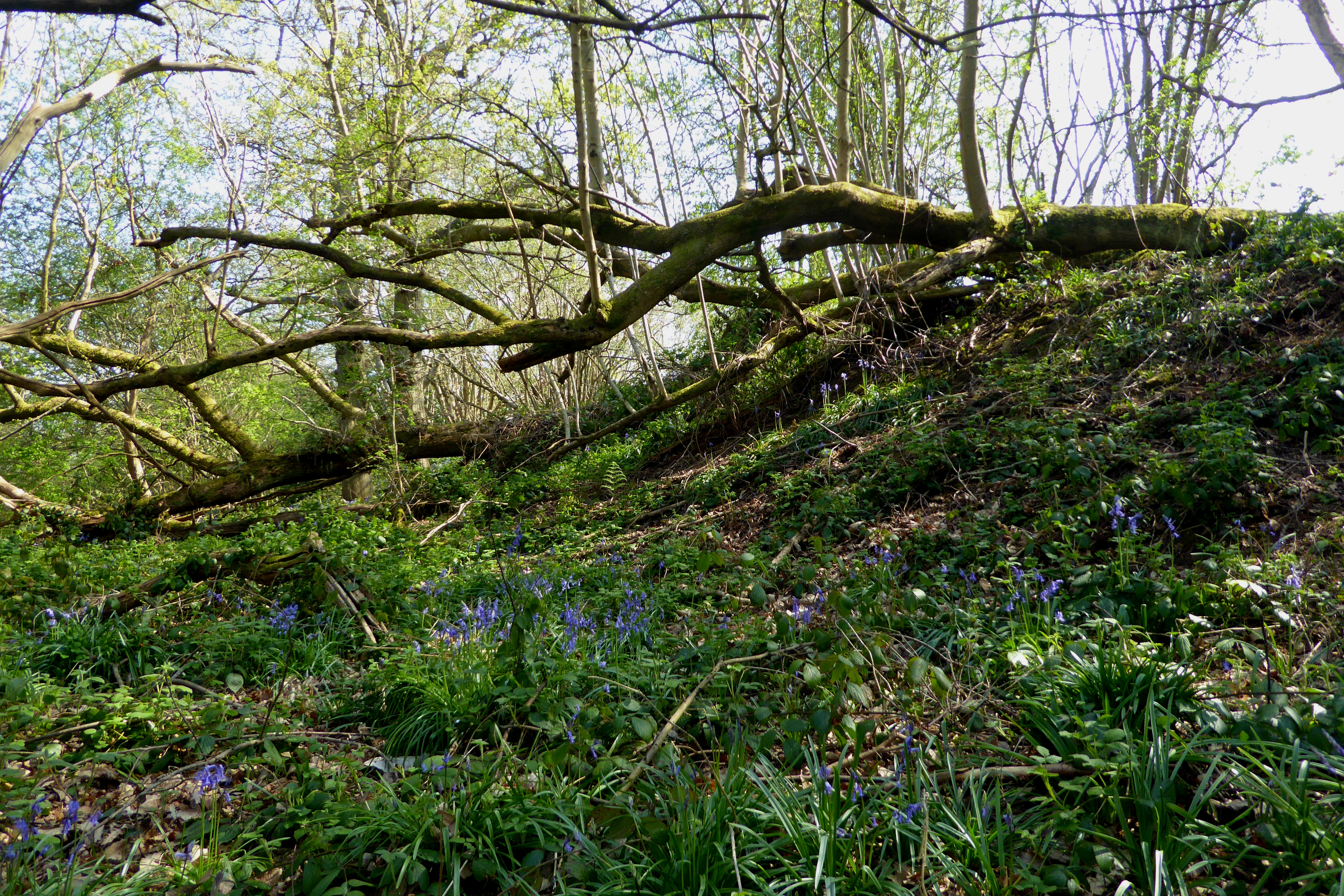 The northern bank on the Oldbury Hillfort in Kent.